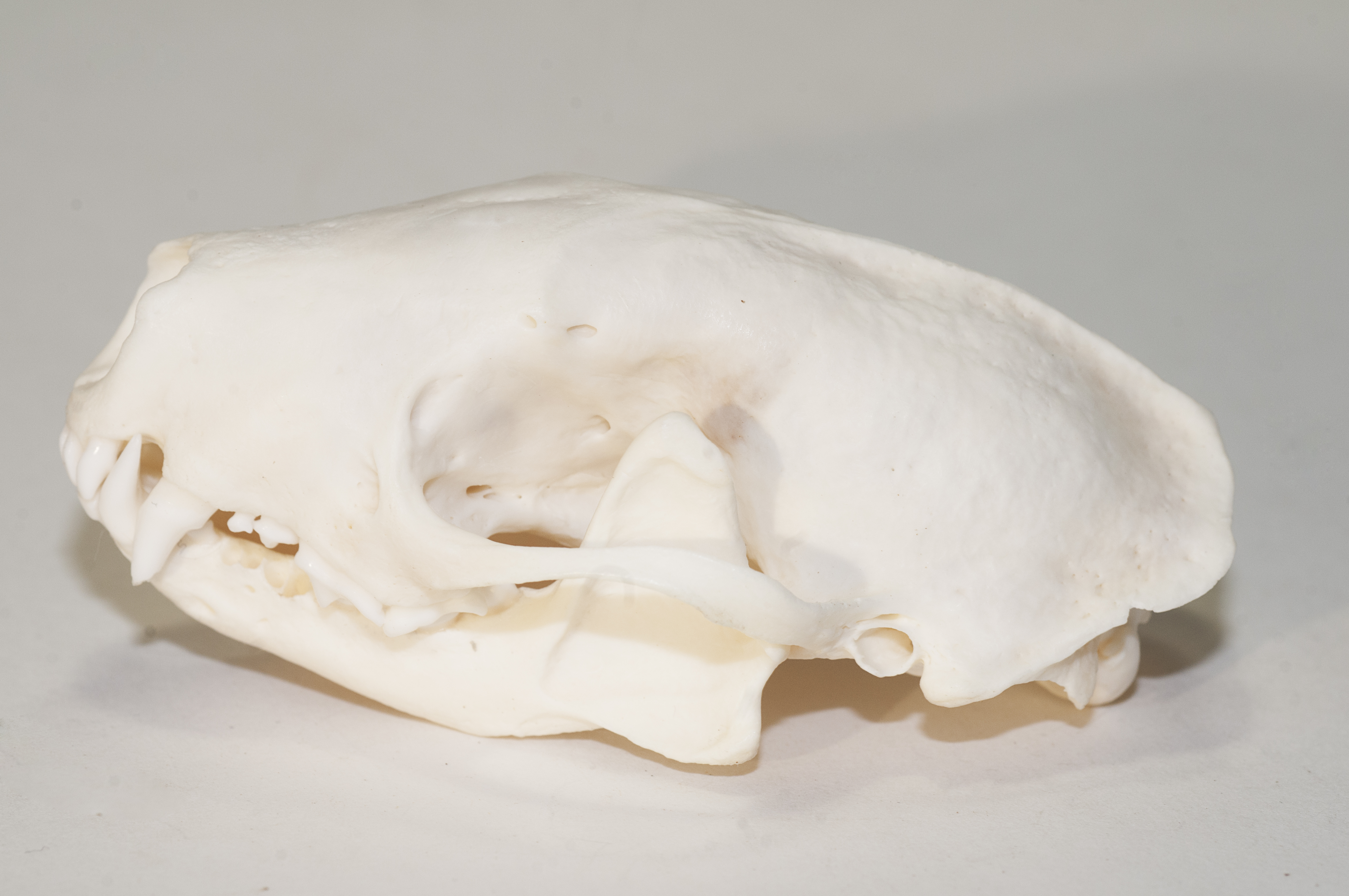 White striped skunk skull from North America